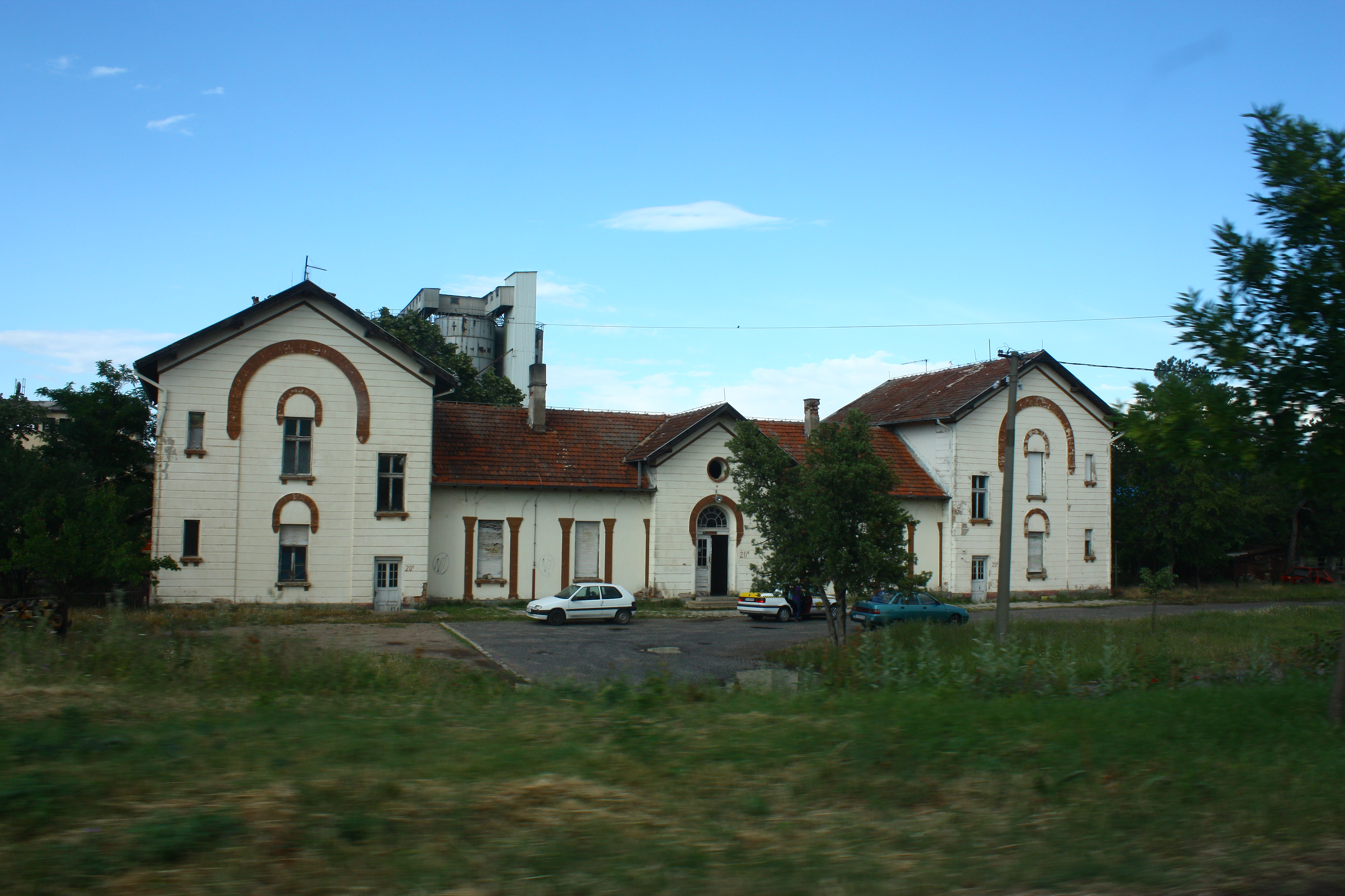 This image is uploaded as part of the picture contest Wiki Loves Cultural Heritage in Macedonia 2013. English | македонски | +/− Štip train station, Macedonia